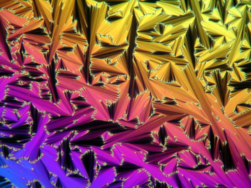 Picture taken by a polarizing microscope showing a liquid crystal's focal-conical smectic c-phase.